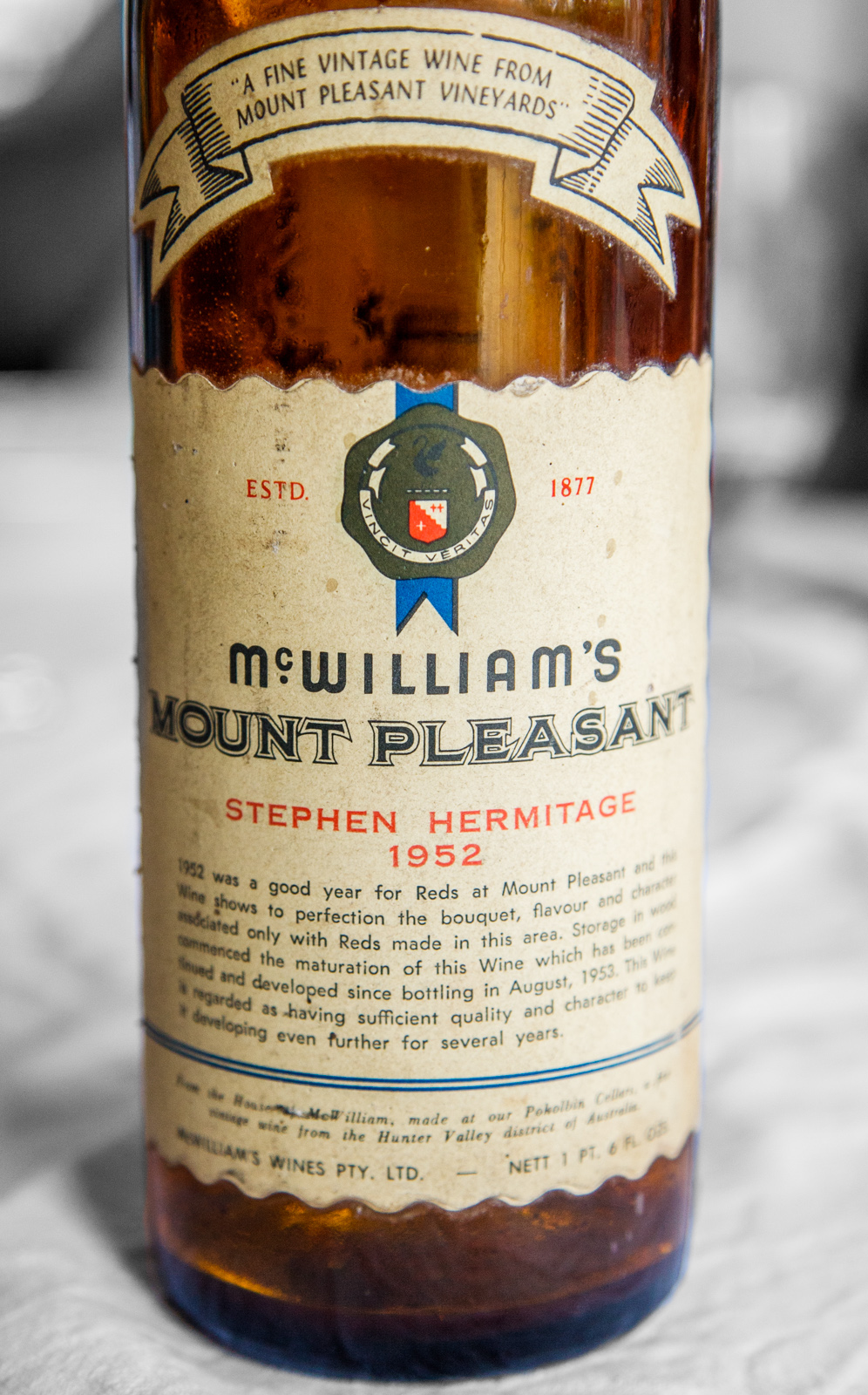 A bottle of 1952 McWilliam's Mount Pleasant Stephen Hermitage Shiraz wine, produced by winemaker Maurice O'Shea in the Hunter Valley, New South Wales, Australia.